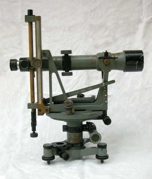 Self-reducing tacheometer SECRETAN, Paris, model 7021